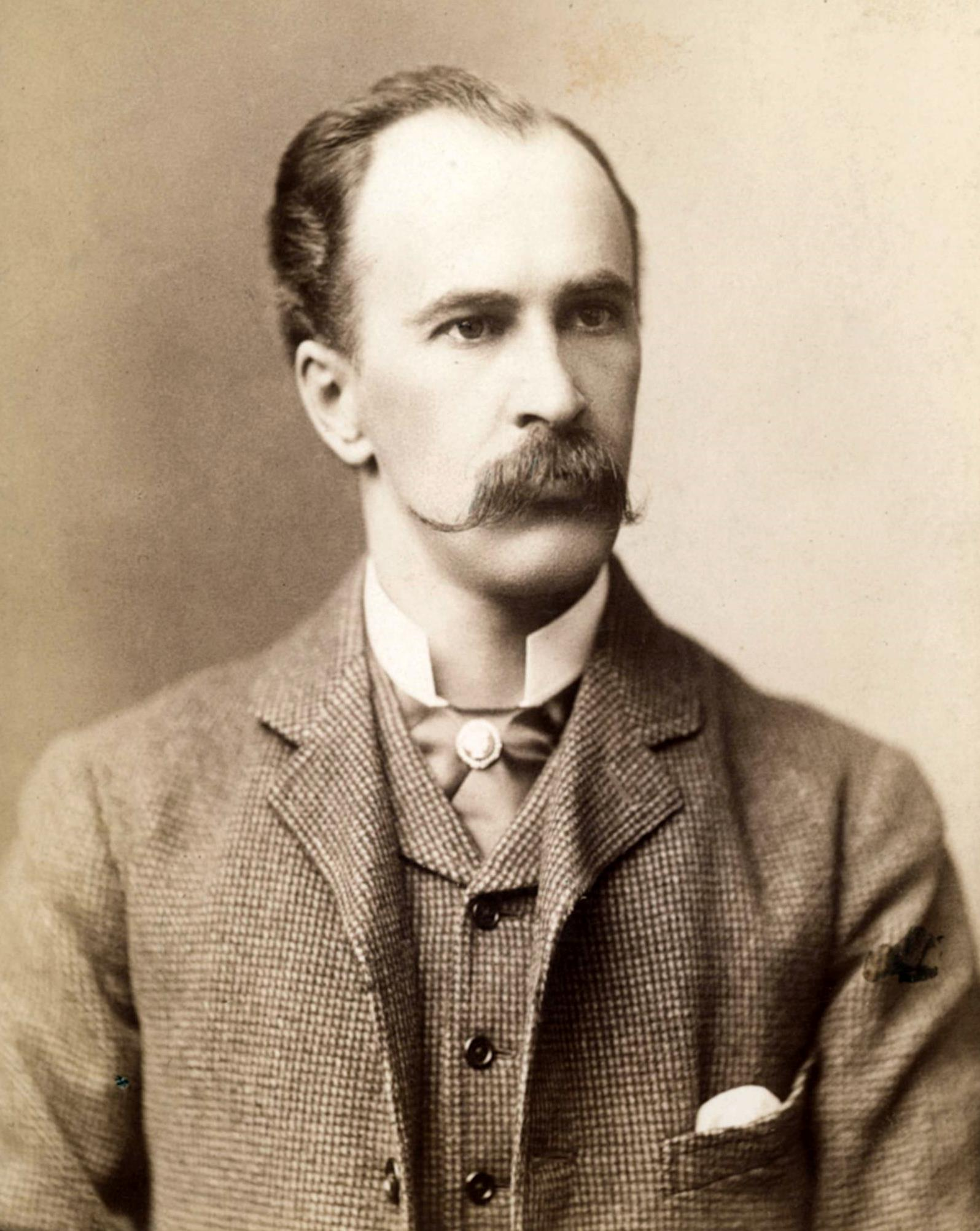 William Osler (1849 - 1919), Professor of Clinical Medicine 1884-1888, portrait photograph